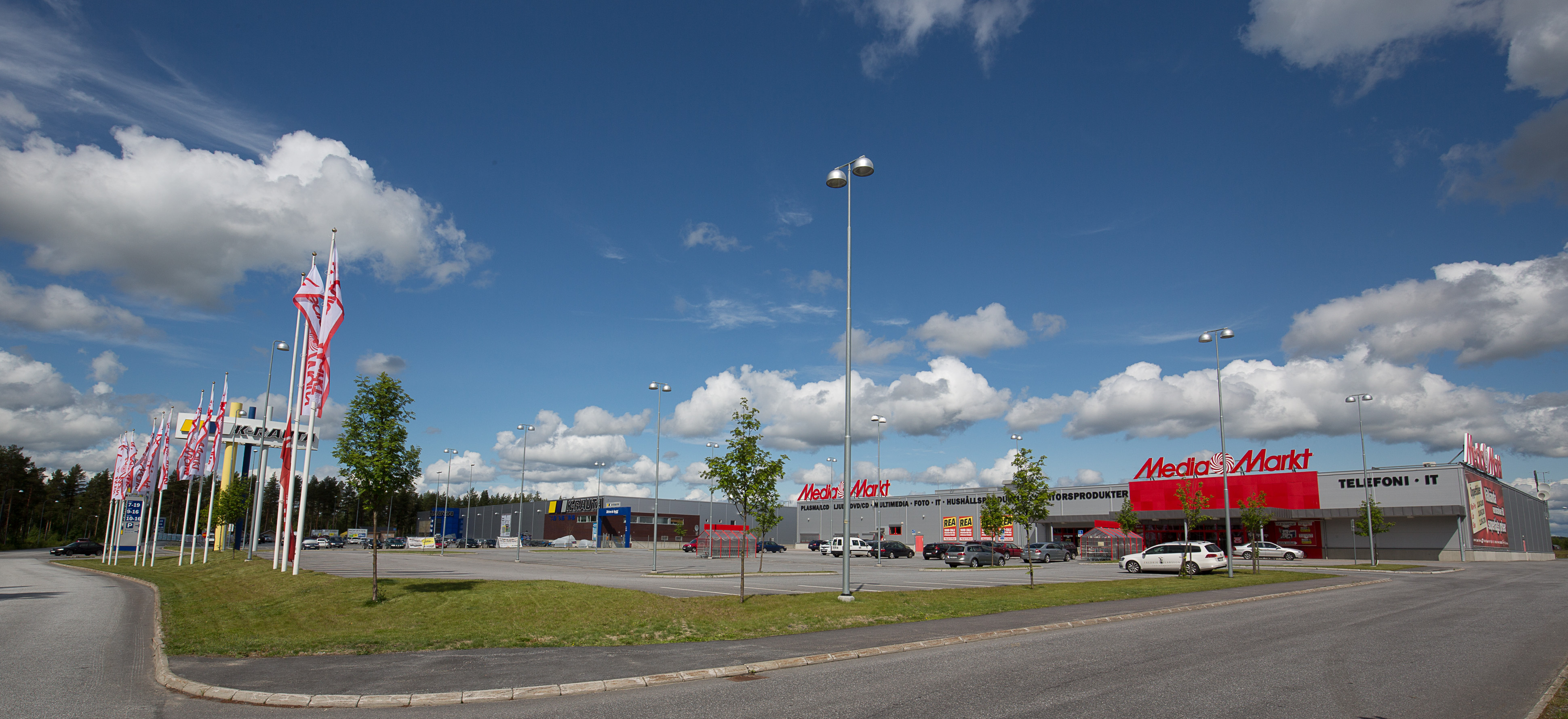 The shopping mall MediaMarkt at Klockarbäcken, Umeå, Sweden.